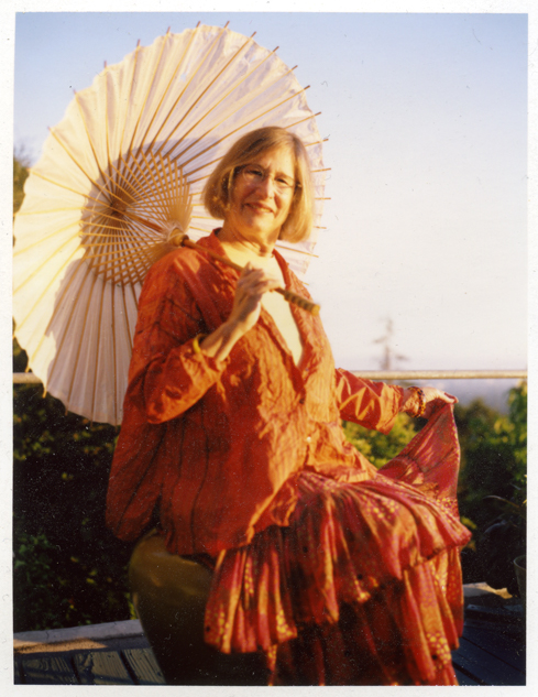 Susan Subtle holds an umbrella in Berkeley, California - 2009